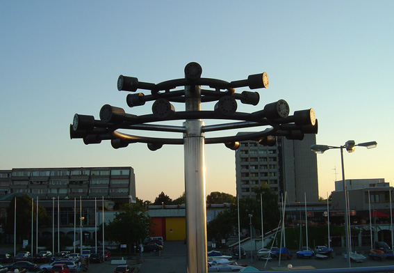 The olympic fire for the sailing games 1972 in Kiel-Schilksee, Germany